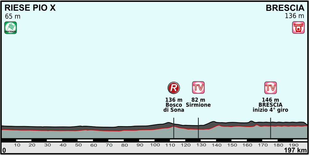 Giro d'Italia 2013 - stage profile # 21